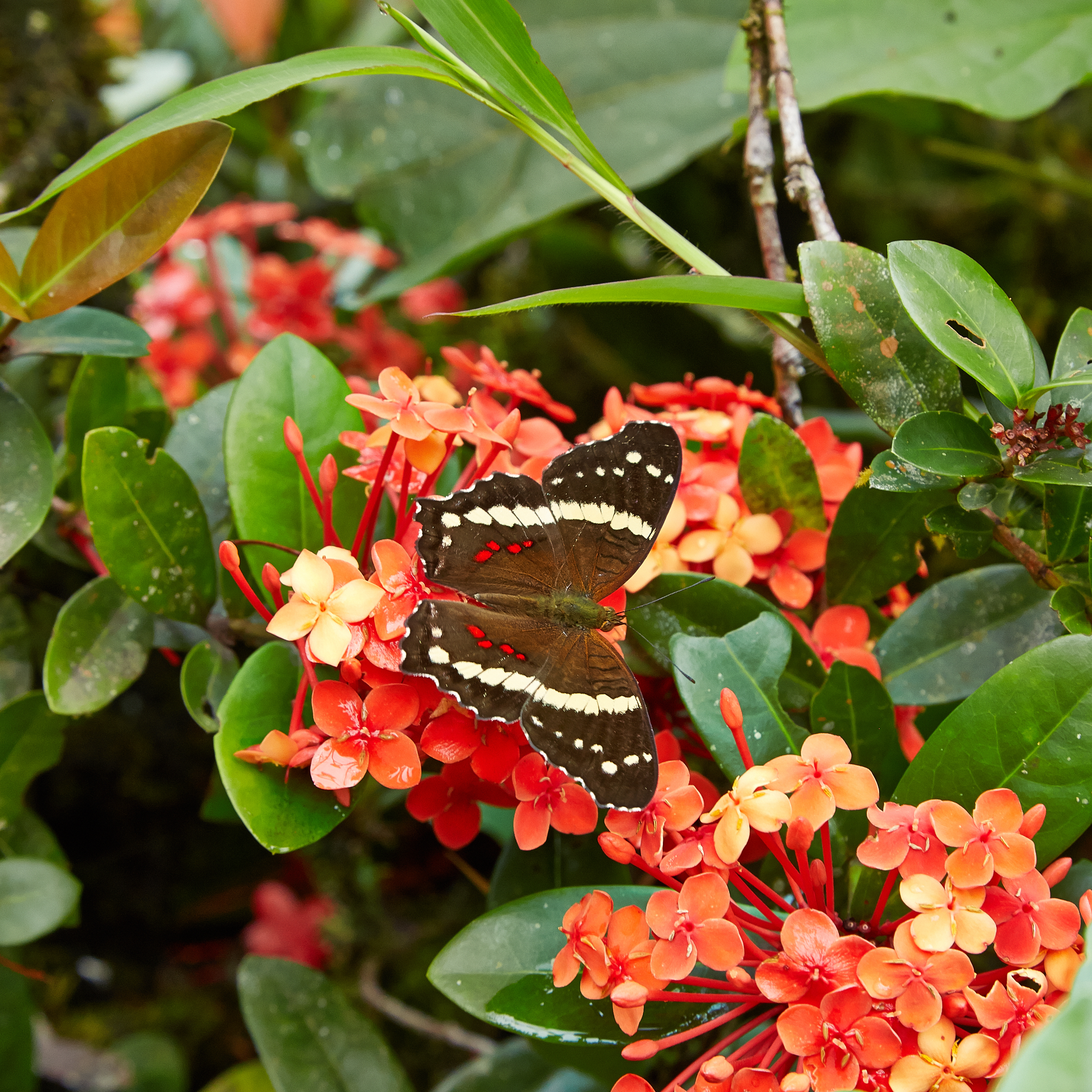 Anartia fatima on a Ixora coccinea